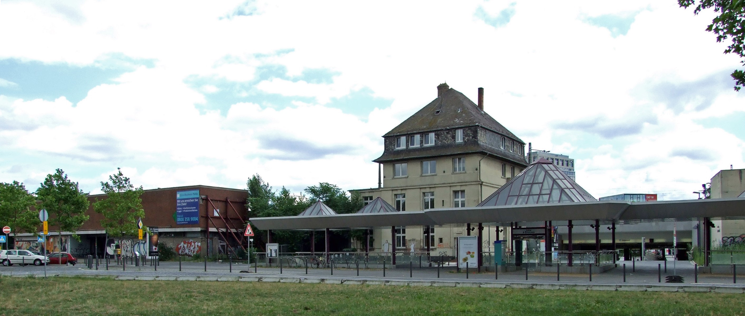 railway and underground station Ostbahnhof in Frankfurt am Main (Ostend)